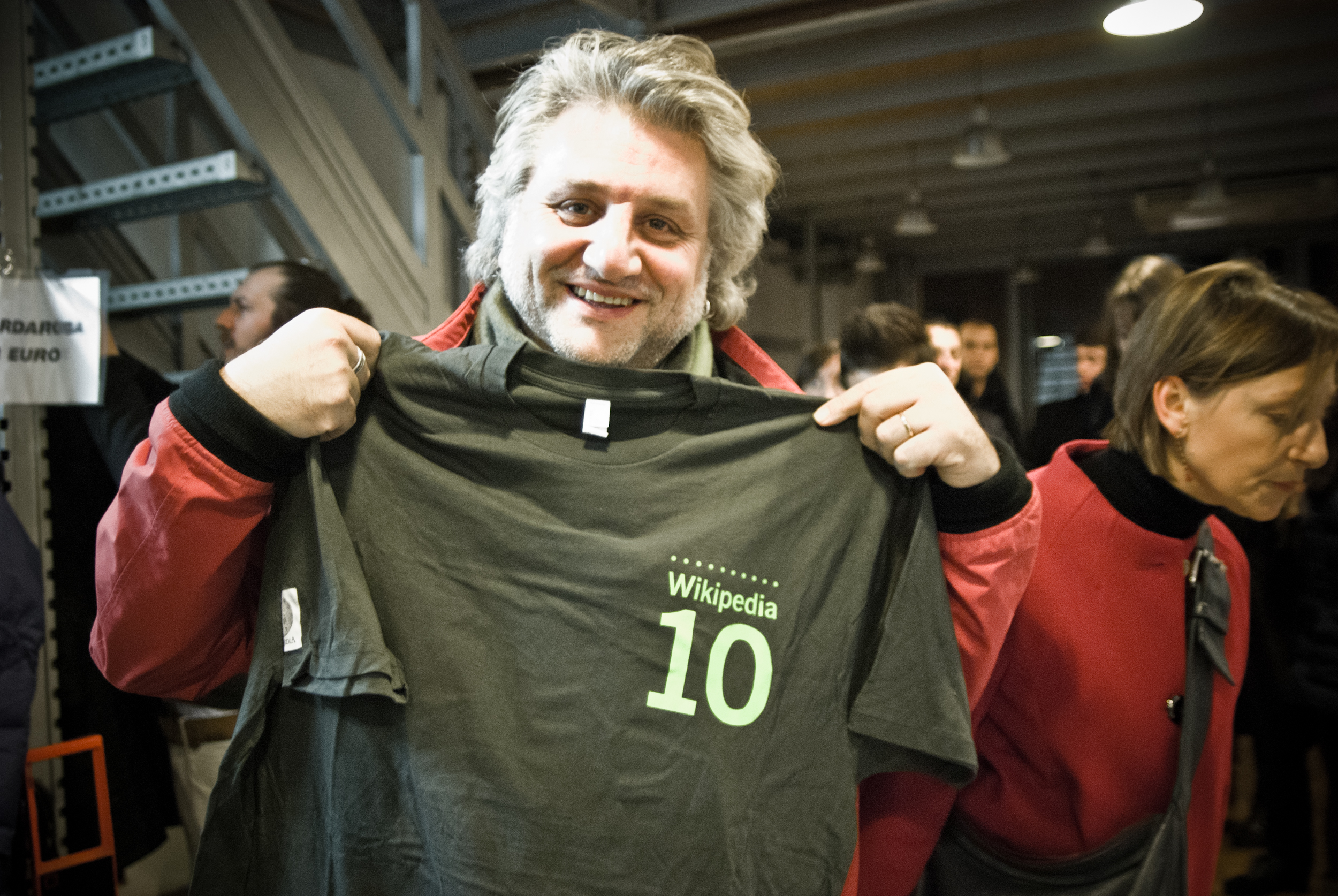 Wikipedia 10 party in Milan organized by Wikimedia Italia; January 15th, 2011. Loft 21, via Padova 21, Milano.